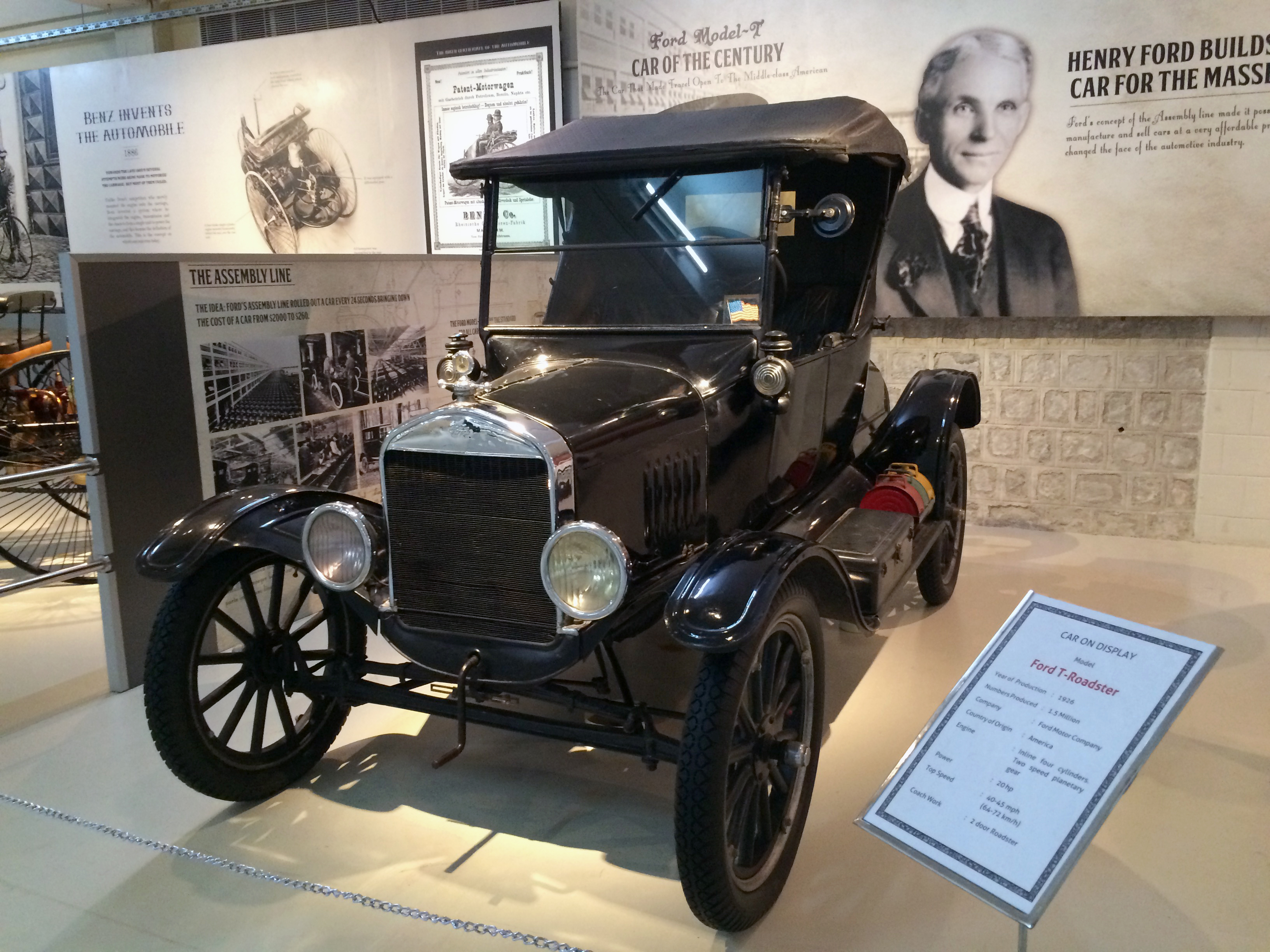 A 1924-1925 Ford Model T Roadster in Gedee Car Museum, Coimbatore, India. (Despite the exhibit's labeling, the car's styling shows it is not a 1926 model.)